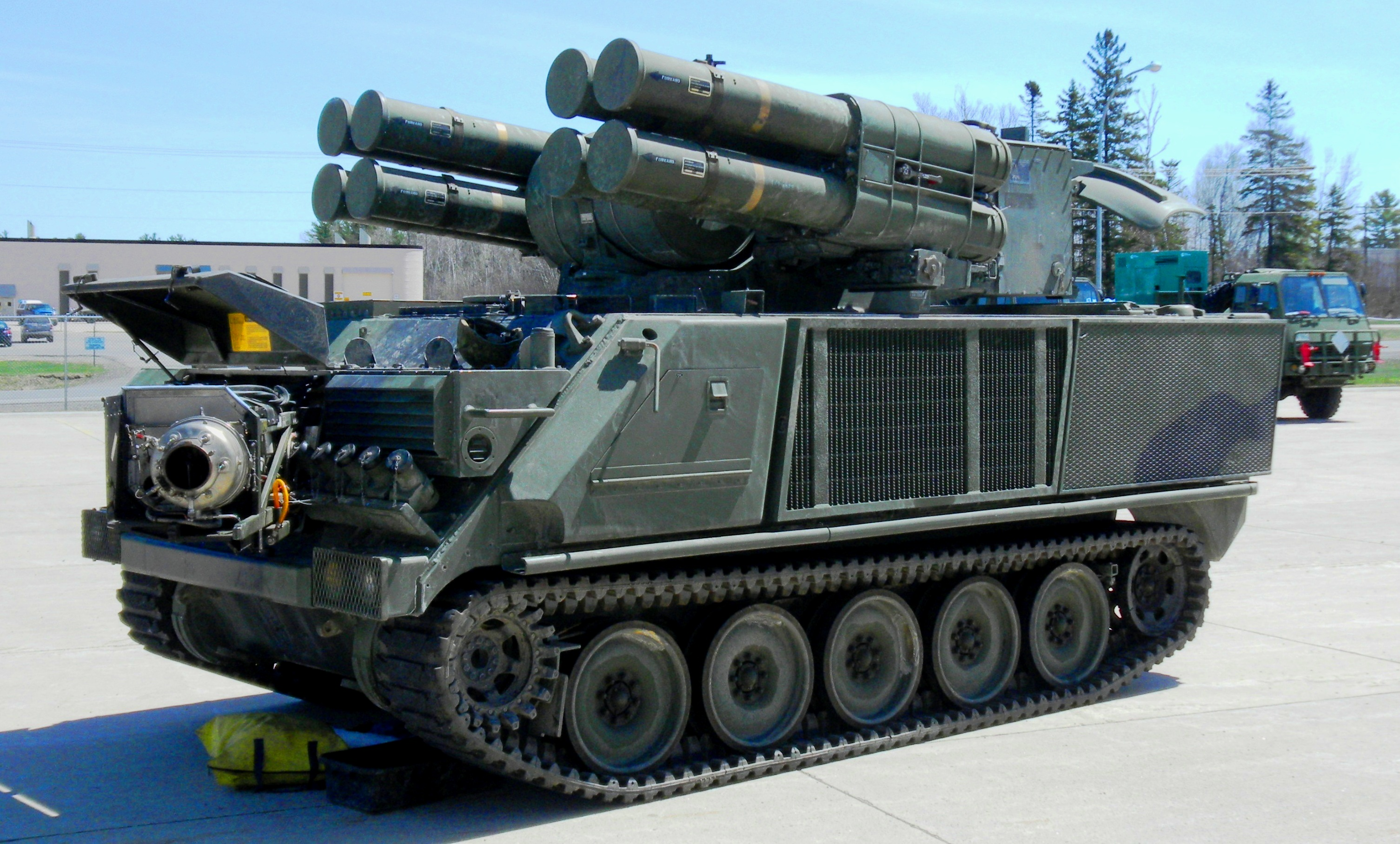 Air Defense Anti-Tank System (ADATS), 4 Air Defence Regiment, CFB Gagetown, New Brunswick. The Air Defense Anti-Tank System (ADATS) is a dual-purpose short range surface-to-air and anti-tank missile system based on the M113A2 vehicle. The ADATS missile is a laser-guided supersonic missile with a range of 10 kilometres, with an electro-optical sensor with TV and Forward Looking Infrared (FLIR). The carrying vehicle also has a conventional two-dimensional radar with an effective range of over 25 kilometres.